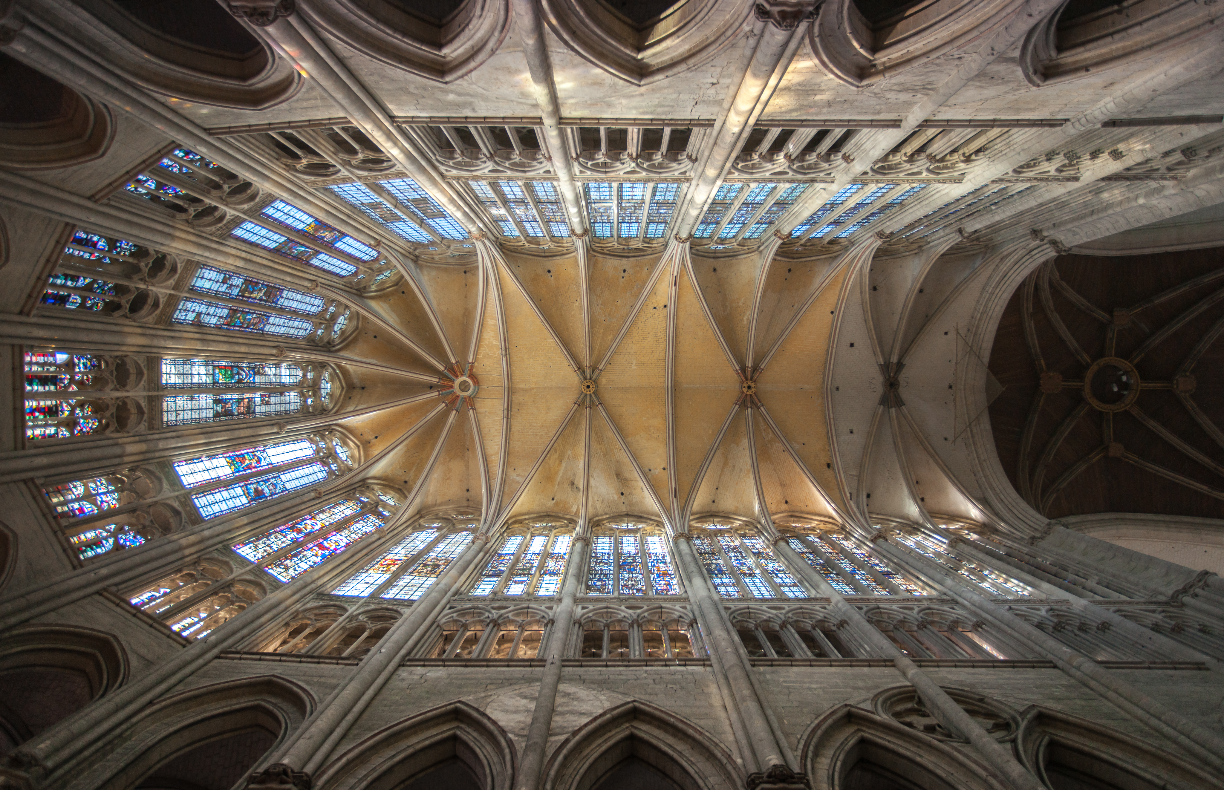 Cathedral of Saint Peter of Beauvais, vault of the choir, Beauvais/France.